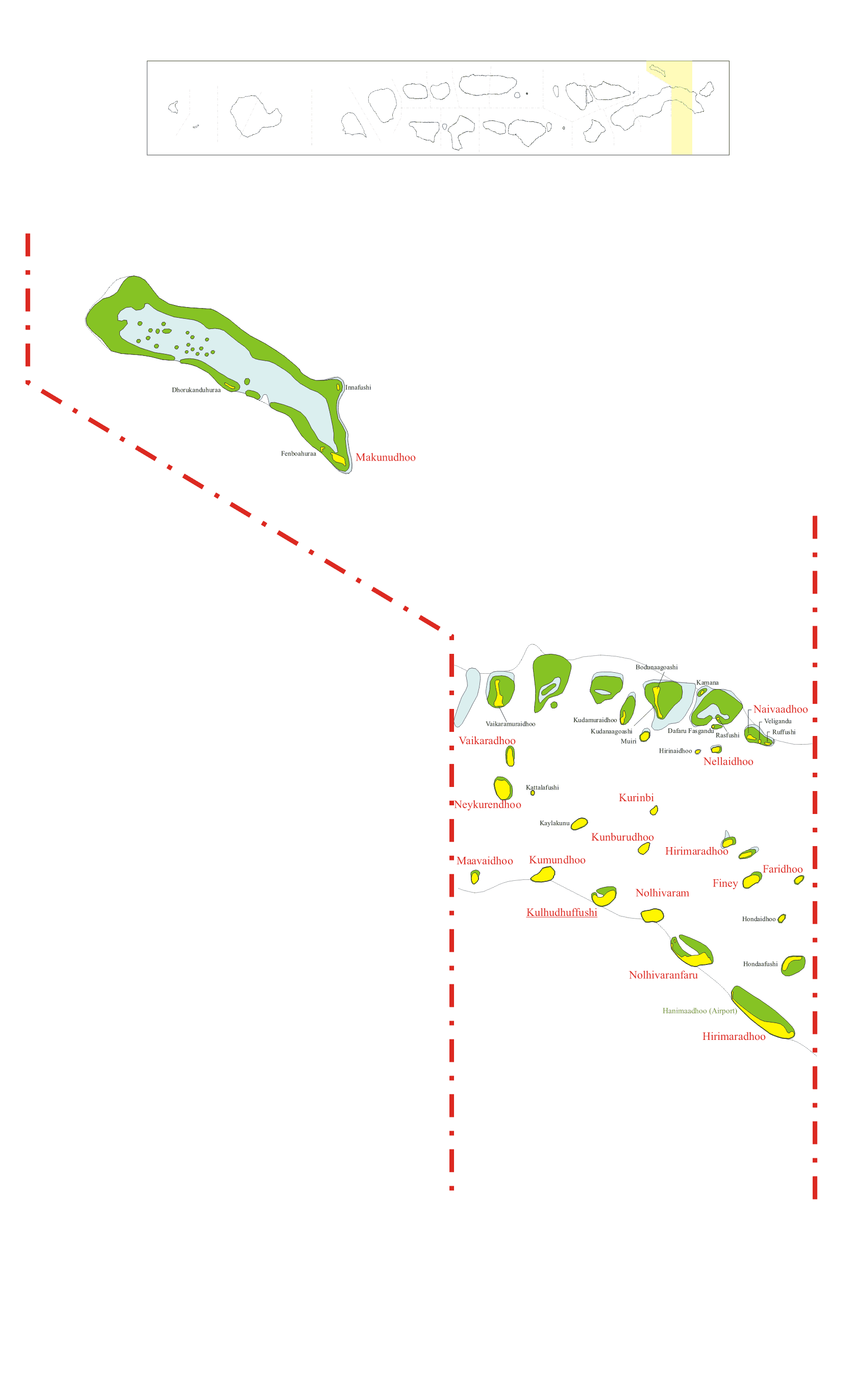 Summary Map of Haa_Dhaalu Map originally vector'ed by Hassan Waheed, Aabaadhuge of Thinadhoo island. Note: This section of map was extracted and its text was romanized by Oblivious. Special assitance by Waddey and Zuru Converted to PNG by helix84